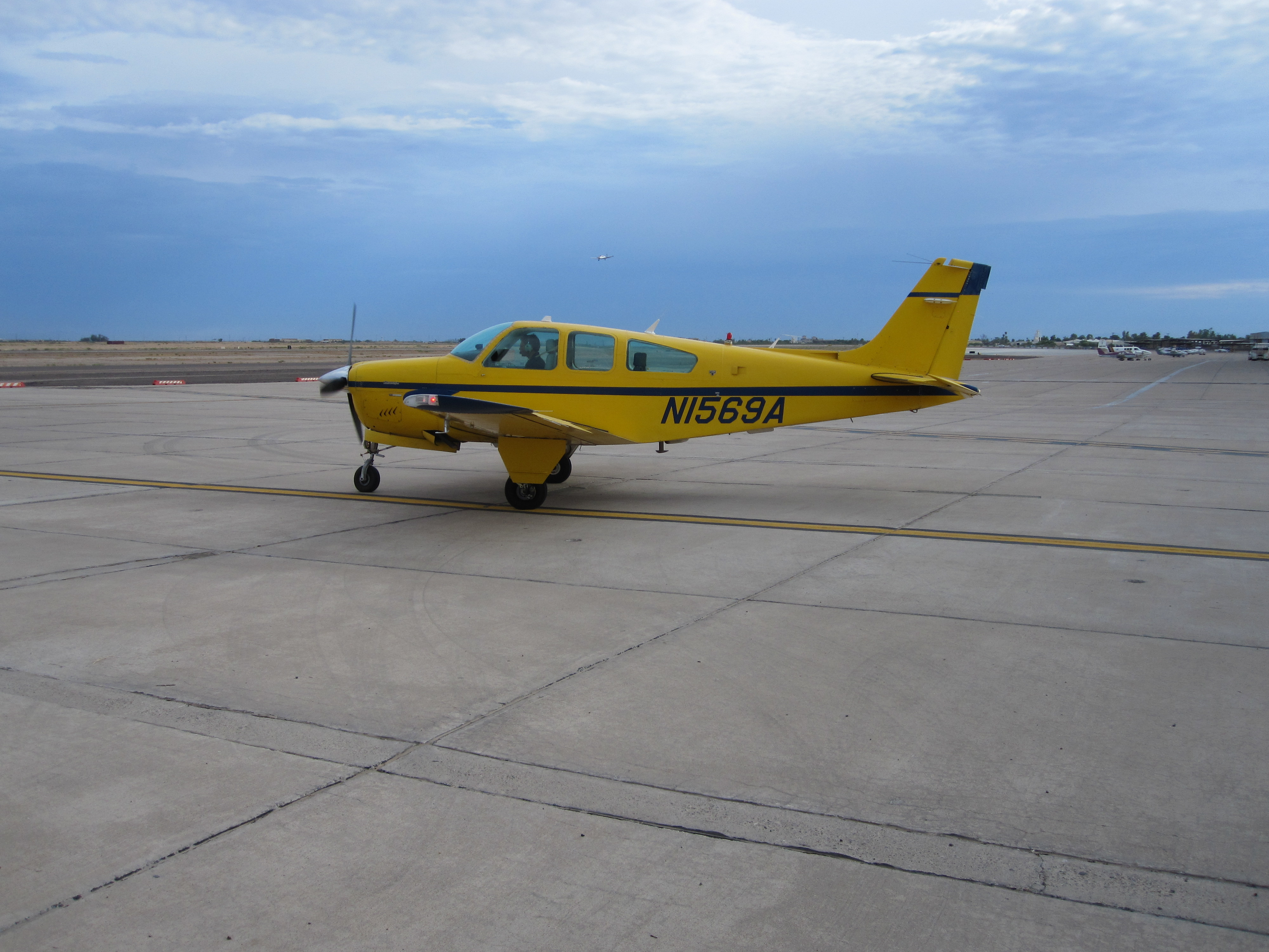 Beechcraft F33A Bonanza ATCA Classic Painting